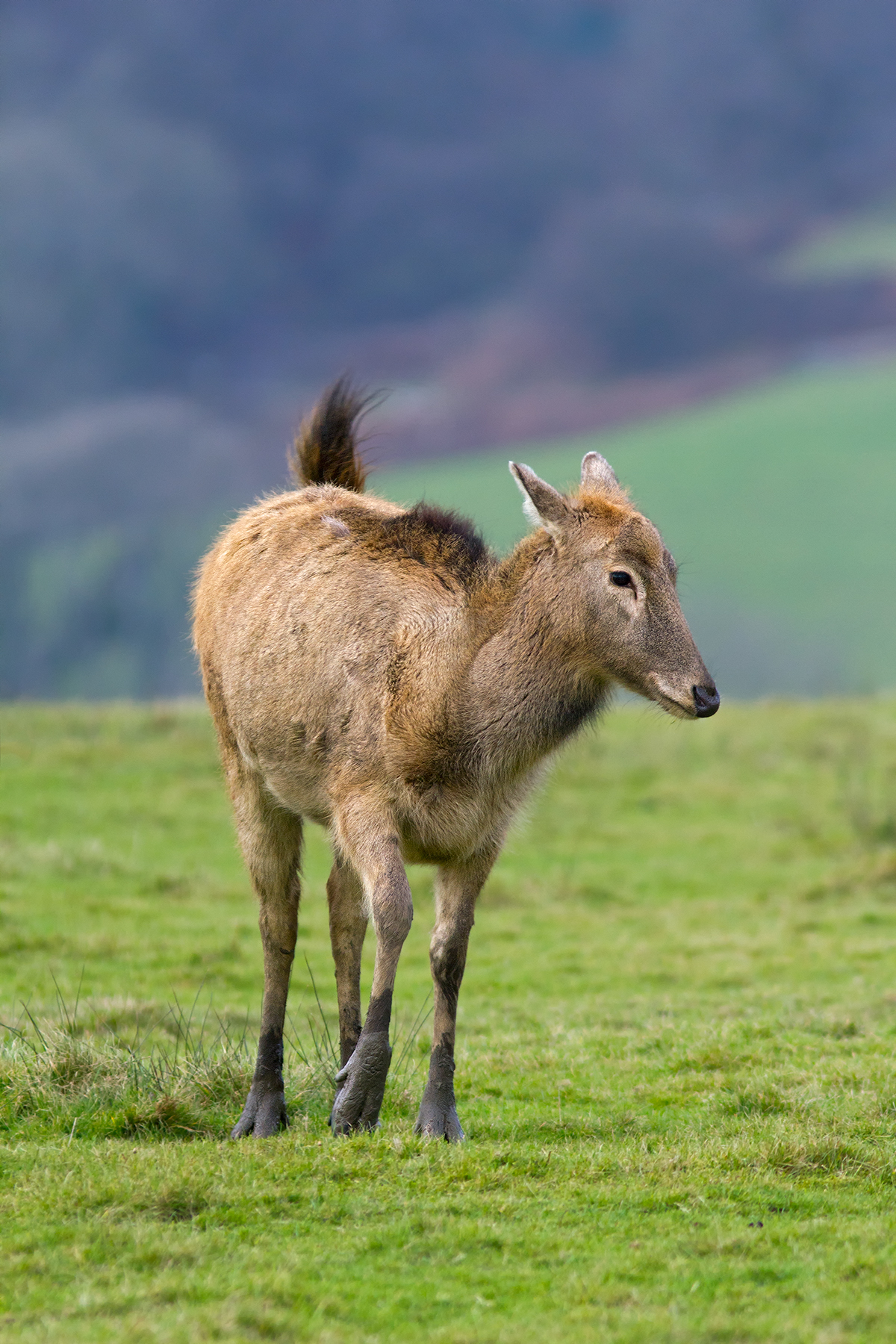 Female Pere Davids deer (Elaphurus davidianus).